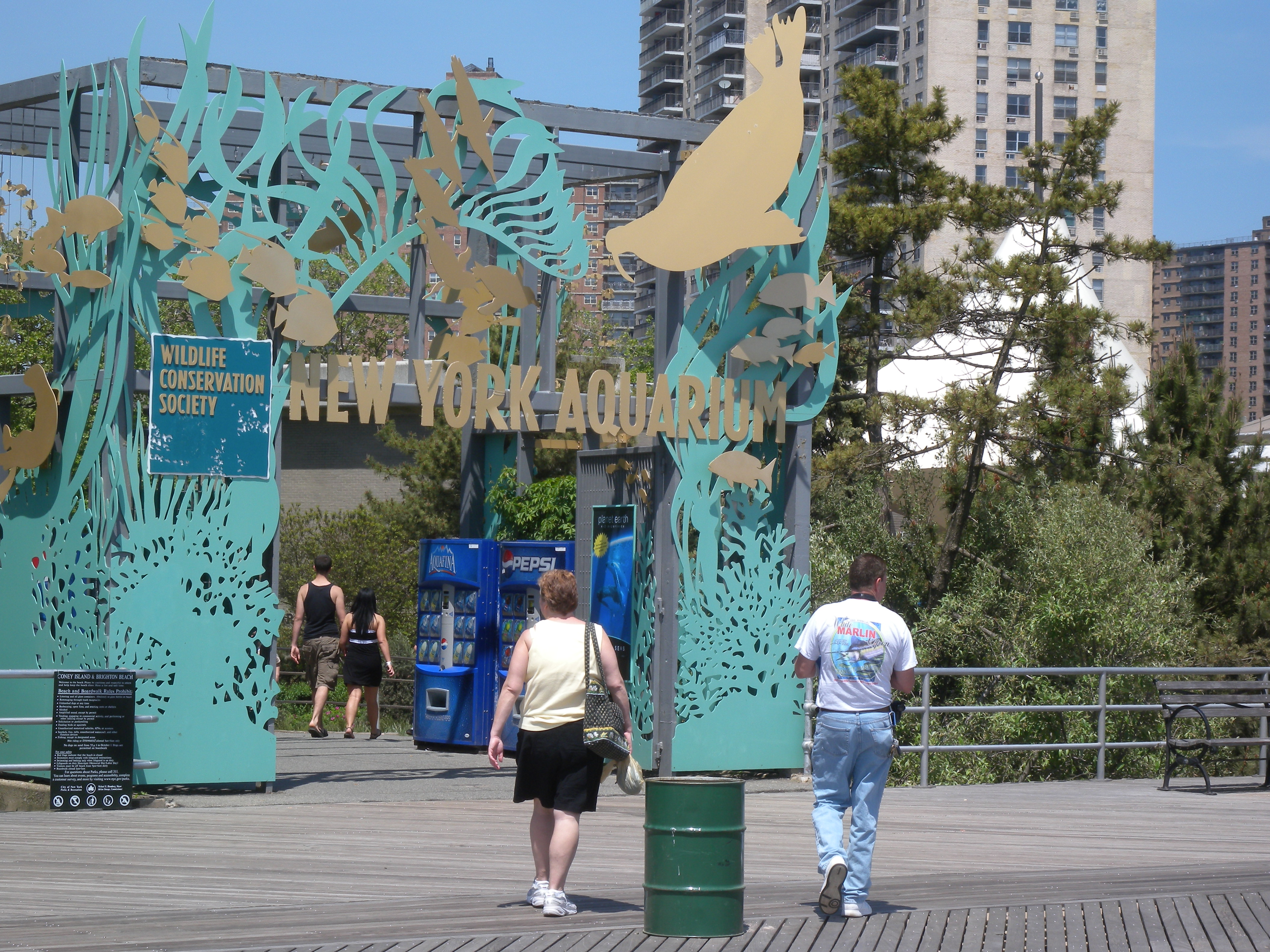 Looking northeast at boardwalk entrance of New York Aquarium on a sunny midday.